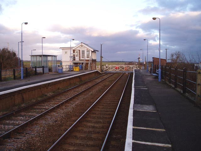 Shippea Hill railway station in 2006